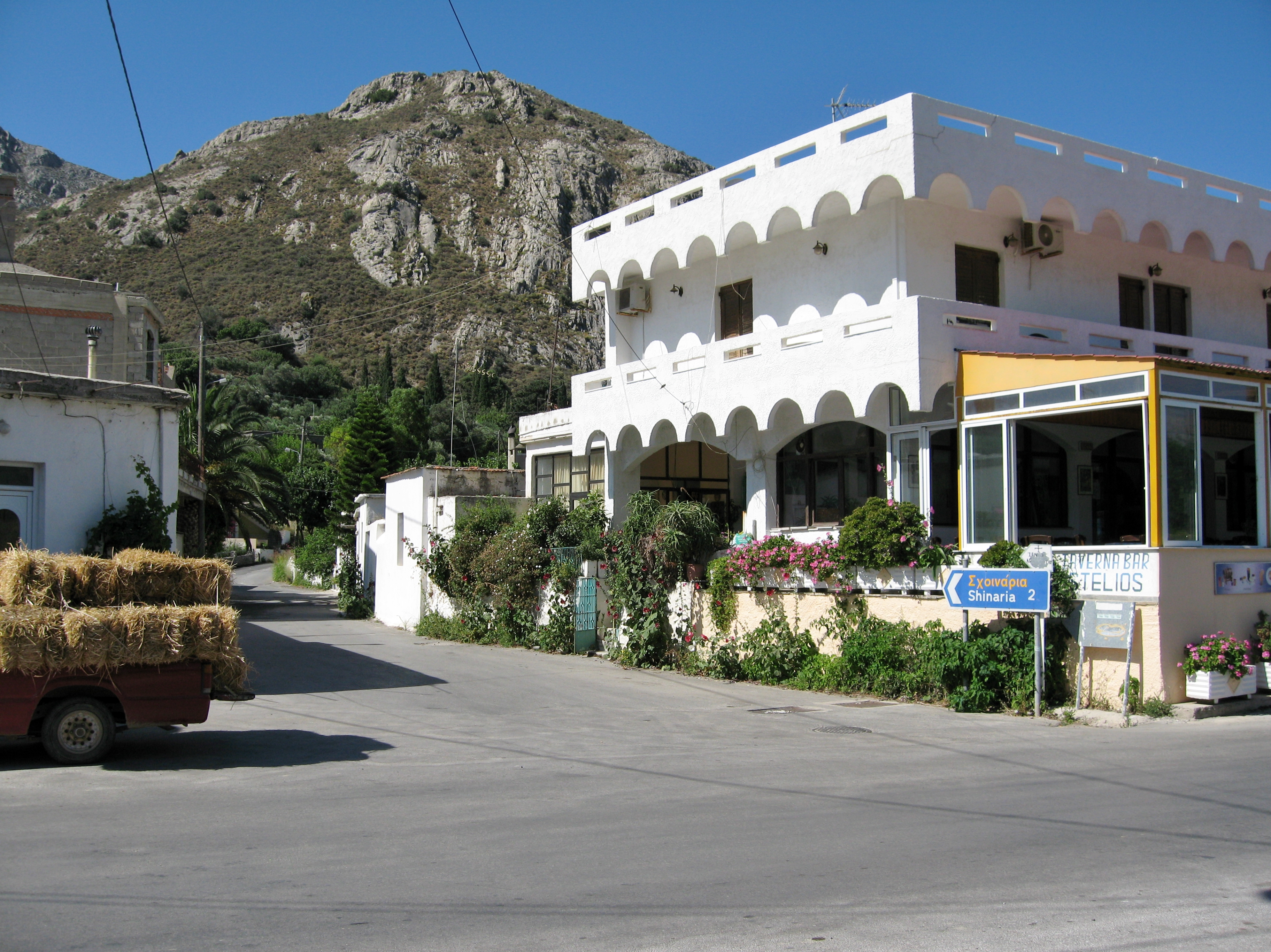 Lefkogia, Finikas, Nomos Rethymno, Crete, Greece